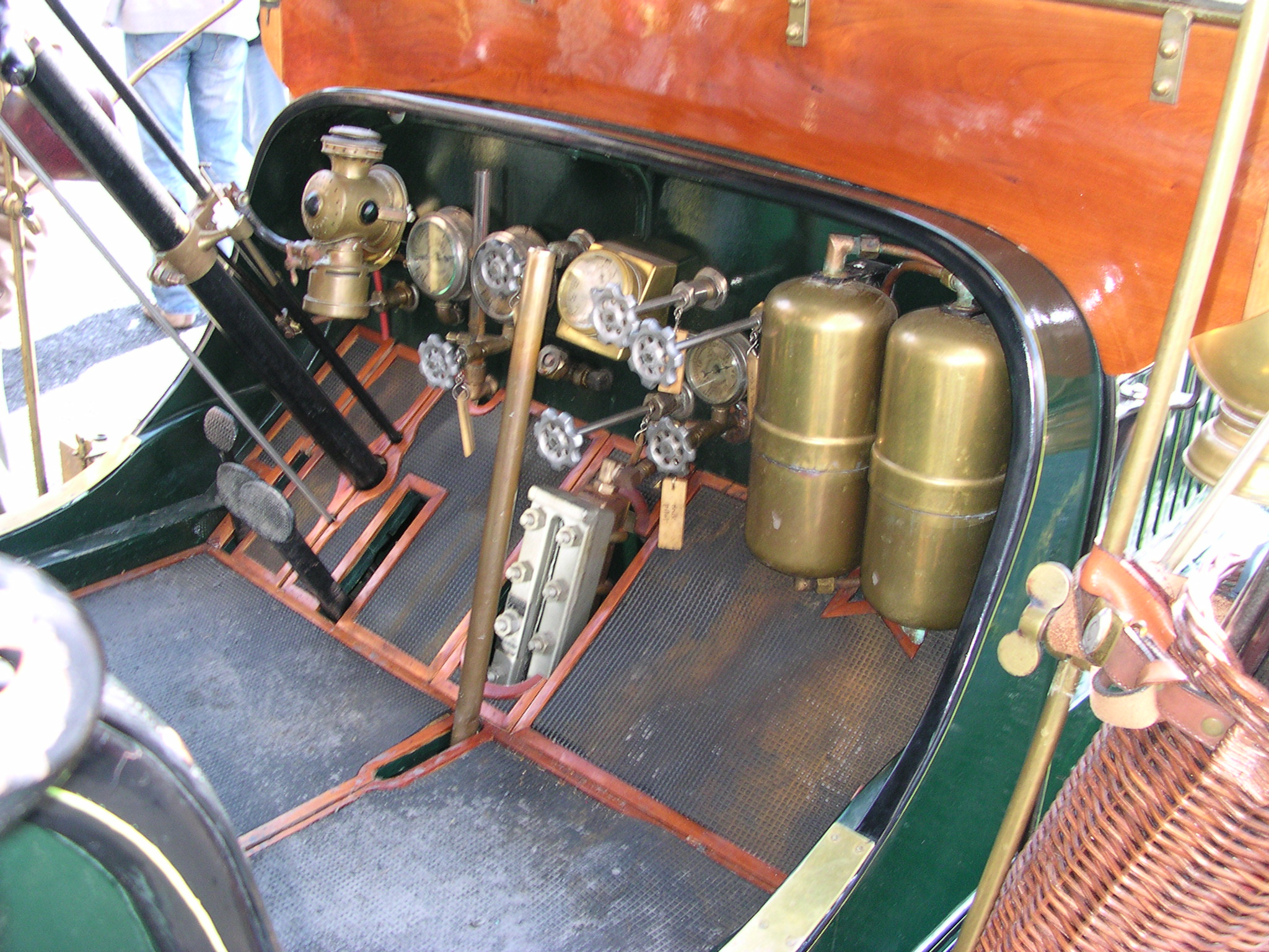 5th steam festival in Bochum, Germany 2007. Stanley 72 roadster, built in 1911